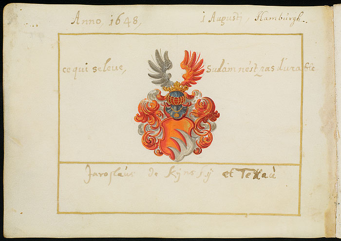 Edinburgh University Library Special Collections December 2006 January 2007 Michael van Meer, Album Amicorum, (or Stam Boek, Stamboek, Stammbuch, book of friends) 17th century Michael van Meer (Antwerp, ca. 1590 - Hamburg, October 13 1653) Album started 1613, ended 1648 527 pages, 774 contributions (entries) More information about the Van Meer Album in RAA REPERTORIVM ALBORVM AMICORVM Internationales Verzeichnis von Stammbüchern und Stammbuchfragmenten in öffentlichen und privaten Sammlungen Department Germanistik und Komparatistik, Friedrich-Alexander-Universität Erlangen-Nürnberg